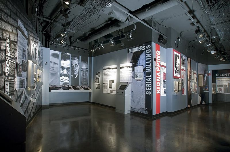 Serial Killers Gallery at the National Museum of Crime & Pushment